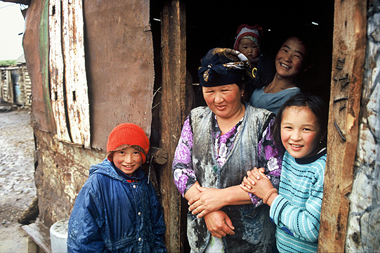 A Kyrgyz family in the kitchen building of their summer farmstead at Maida Adyr, in the Enylchek River valley, at an altitude of 2,540m in the Tien Shan mountains, Kyrgyzstan.